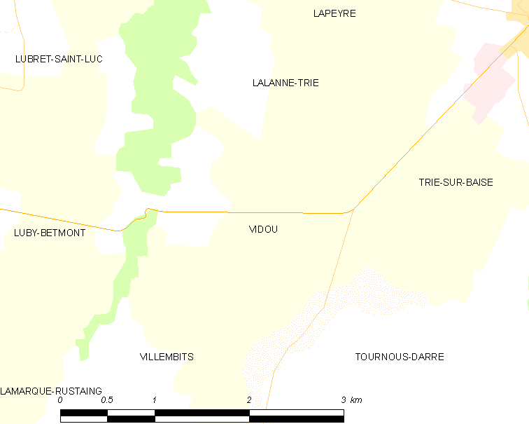 Map of French municipality